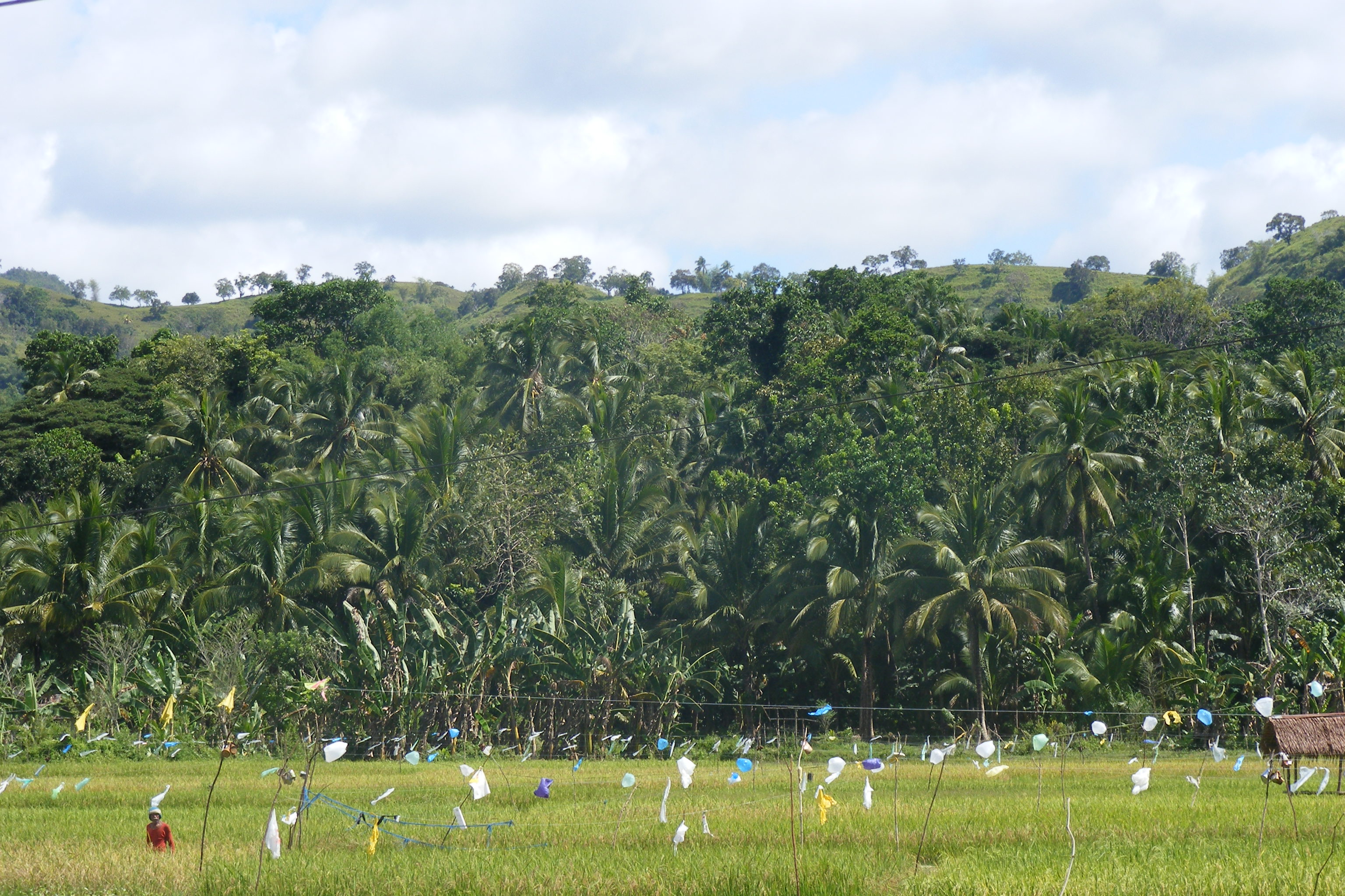 View of the Hills of Rajah Sikatuna Protected Landscape